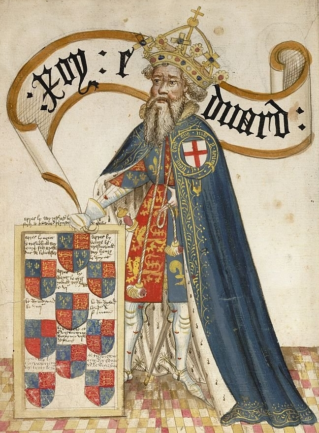 An illuminated manuscript miniature,c.1430-40, of Edward III of England (1327-1377). The king is wearing a blue mantle, decorated with the Order of the Garter, over his plate armour. From the 1430 Bruges Garter Book made by William Bruges (1375–1450), first Garter King of Arms , British Library, Stowe 594 ff. 7v